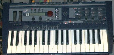 Waldorf microQ keyboard (2001). Achim Gratz, Germany